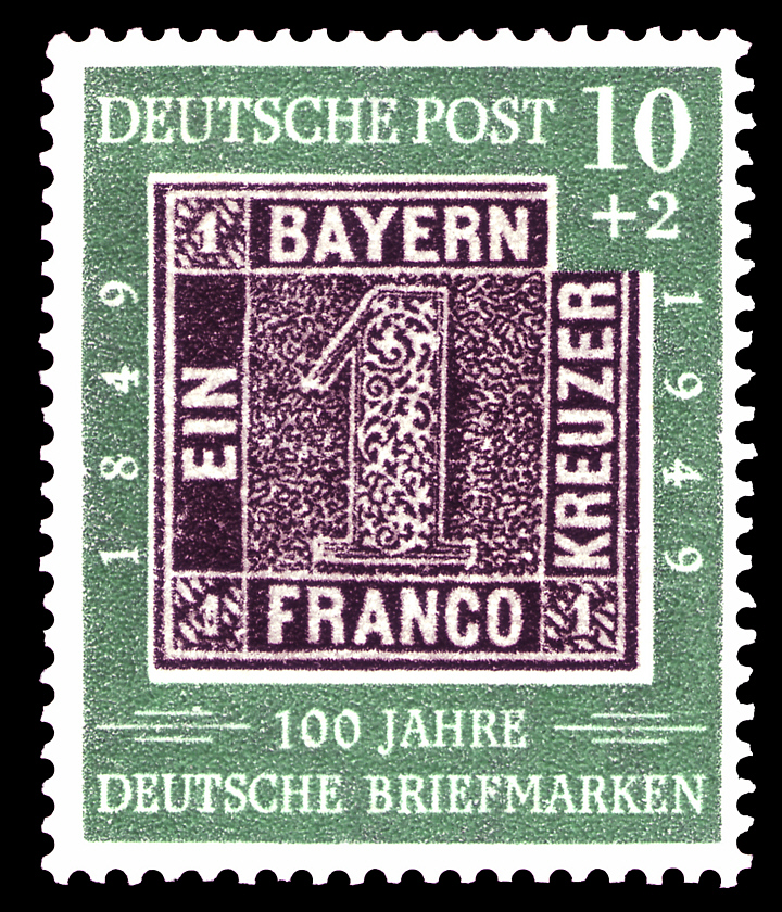 stamp series, 100 years of German stamps Graphics by Bruckmann Ausgabepreis: 10+2 Pfennig First Day of Issue / Erstausgabetag: 30. September 1949 Michel-Katalog-Nr: 113